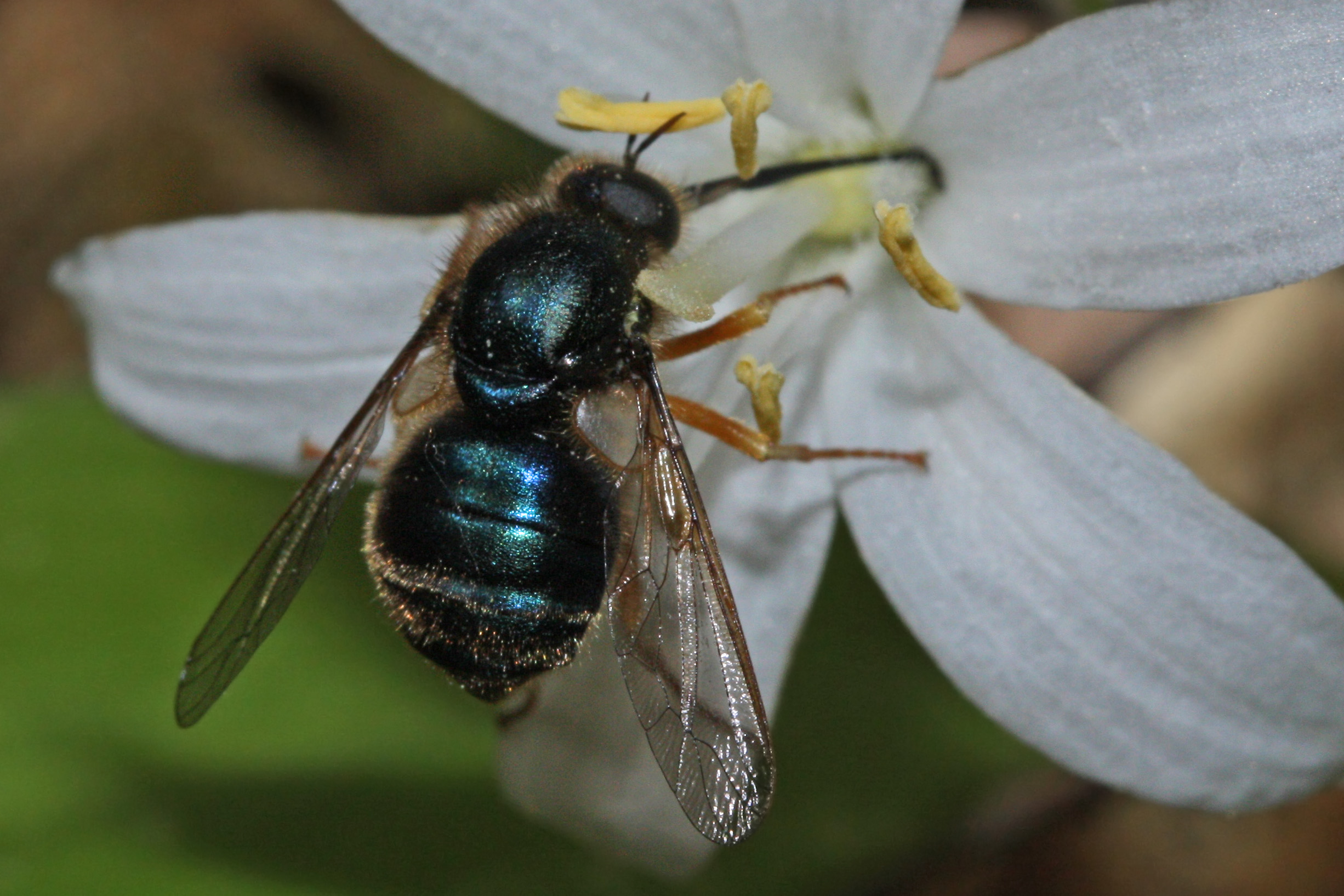 A species of small-headed fly on Queen's Cup (Clintonia uniflora); cropped from original (see other versions below) Location source: Garmin GPSmap 60CSx Location Datum: WGS84 Viewpoint location: Upper Dungeness Trail #833.2, Olympic National Forest Viewpoint elevation: 805 meter (2641 ft) Camera: Canon EOS DIGITAL REBEL XSi Exposure Time: 1/200 F Number: f/13.0 Focal Length: 60.0 Flash: Fill Fired ISO Speed Rating: 400